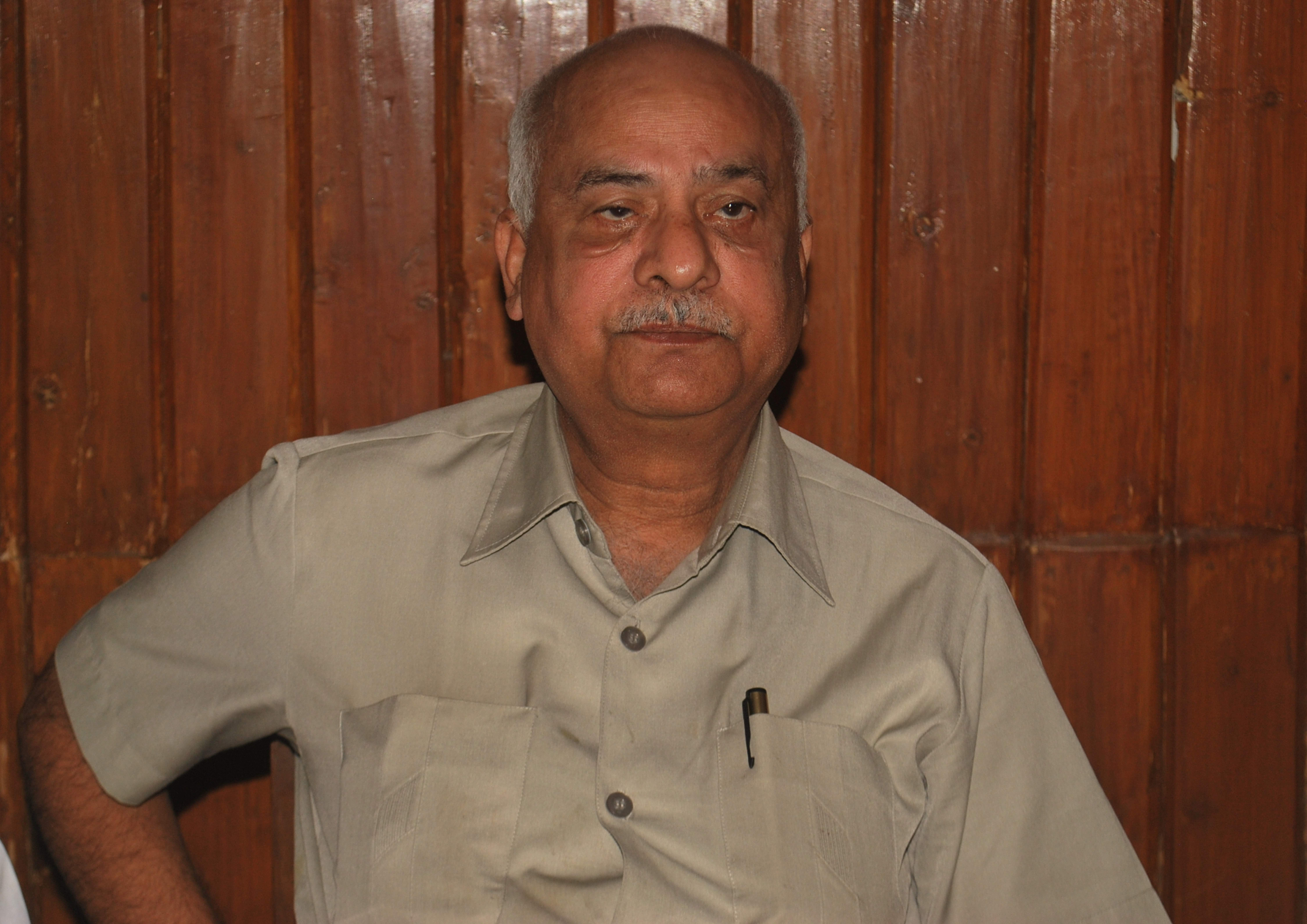 Party function at AITUC office at Bokaro steel city.